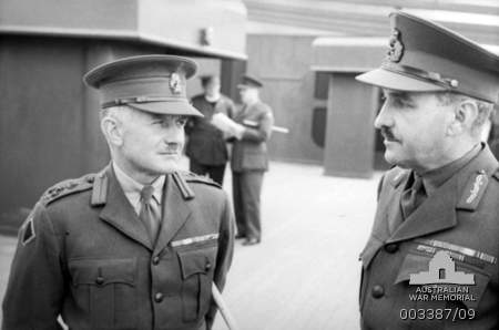 Group portrait of Brigadier E. J. Milford RAA 7th Division AIF (left) and Major-General J. D. Lavarack, Commander 7th Division AIF (right) taken on the deck of the troopship carrying the Division overseas.